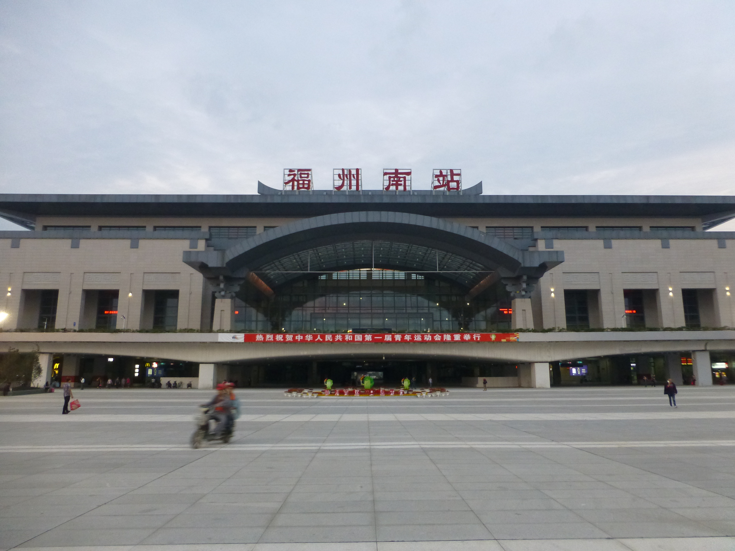 Fuzhou South Railway Station